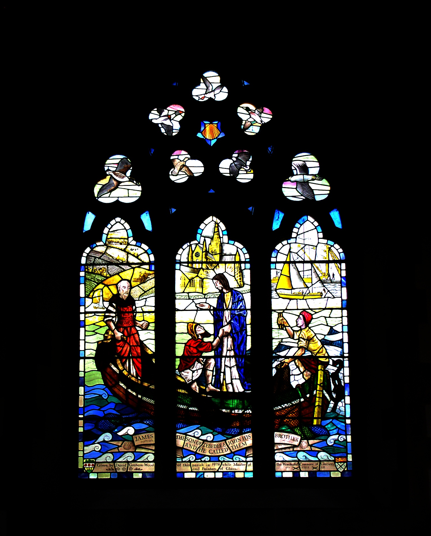 The east window of St James' Church, Birdham, depicting Jesus and the miraculous draft of fish.